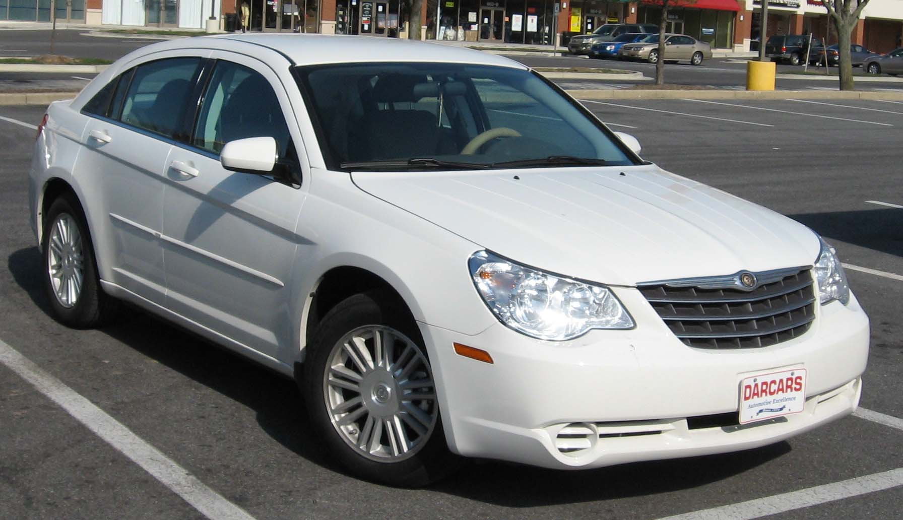 2007 Chrysler Sebring photographed in USA.